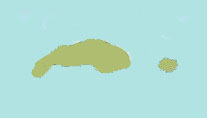 Ritchie's Archipelago North Button Island - Button Islands (Andaman Islands)